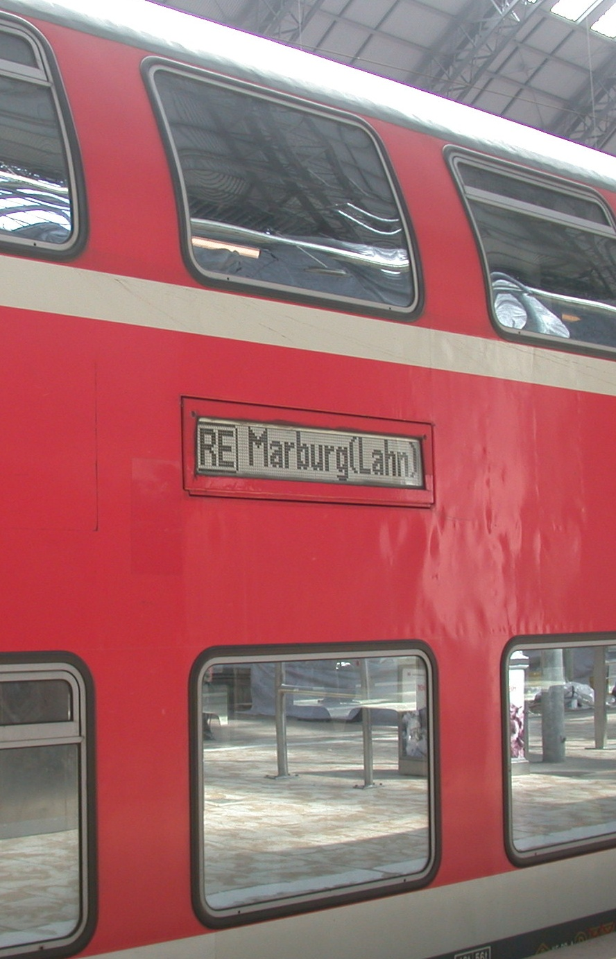 Flip-disc display on a small distance train.